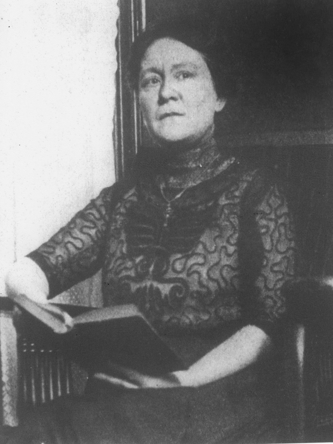 Isabella Goodwin (1865-1943) circa 1915